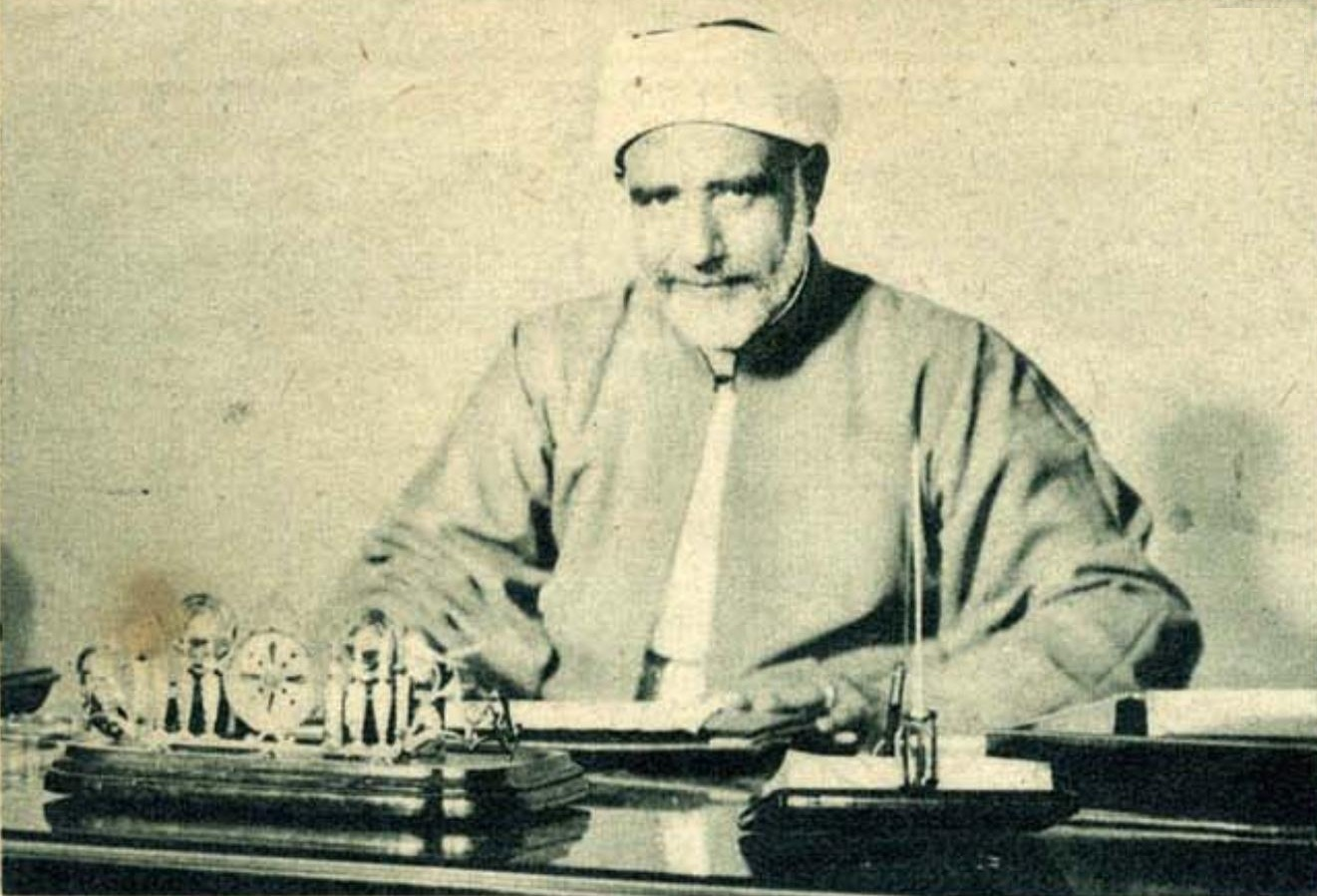 Mustafa al-Maraghi, rector of Al-Azhar University.